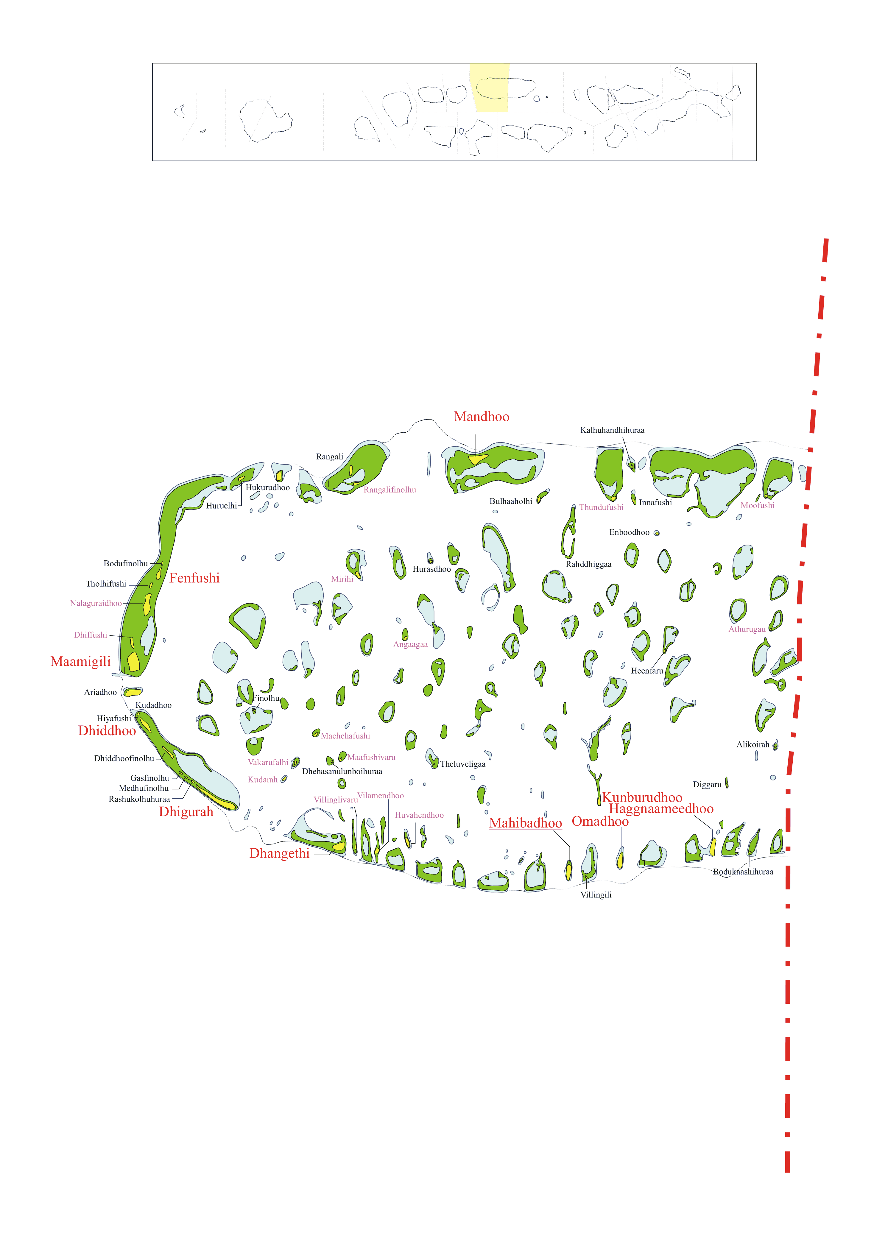 Map of Alif_Dhaal_Atoll